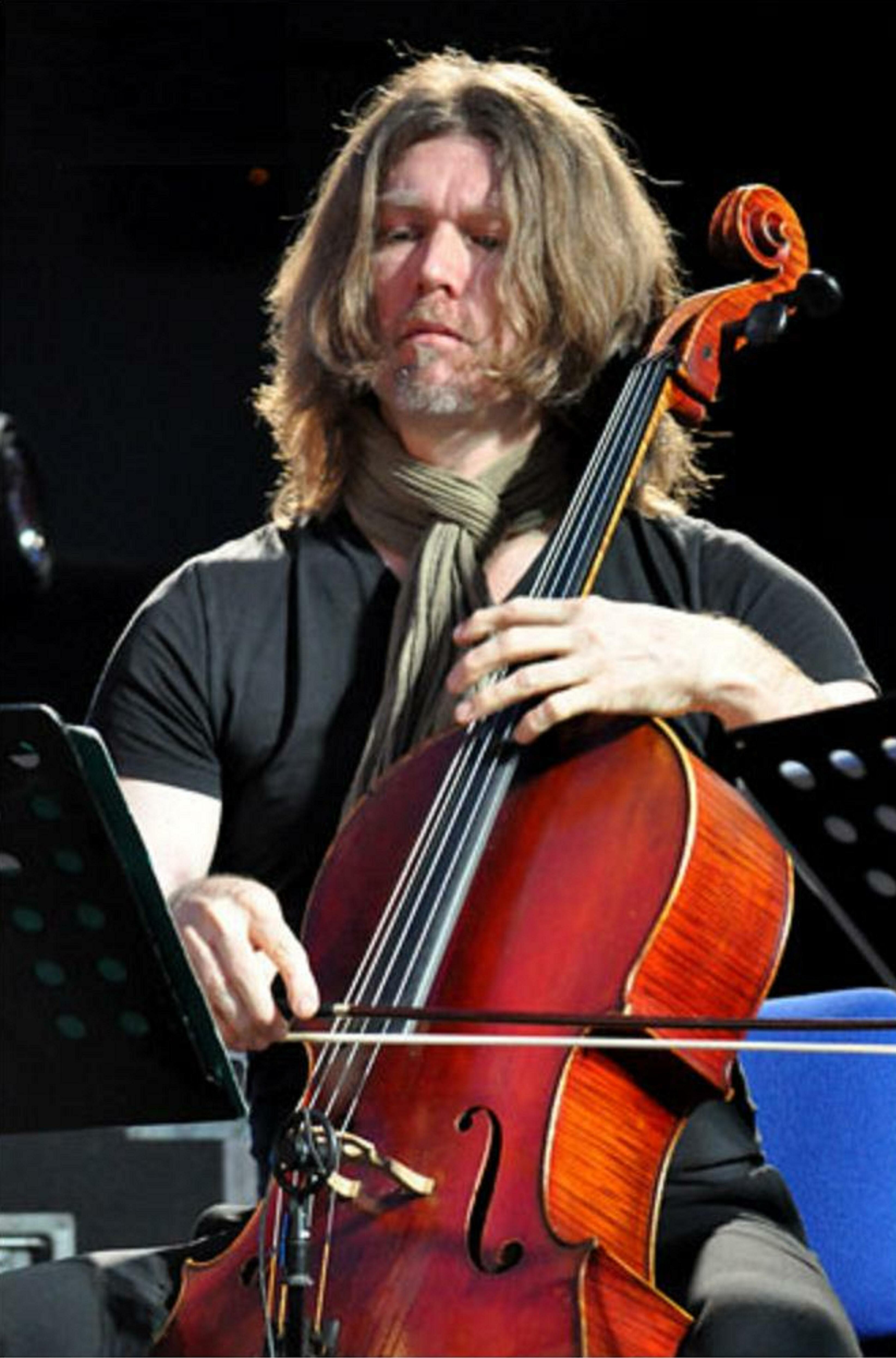 Svante Henrysson